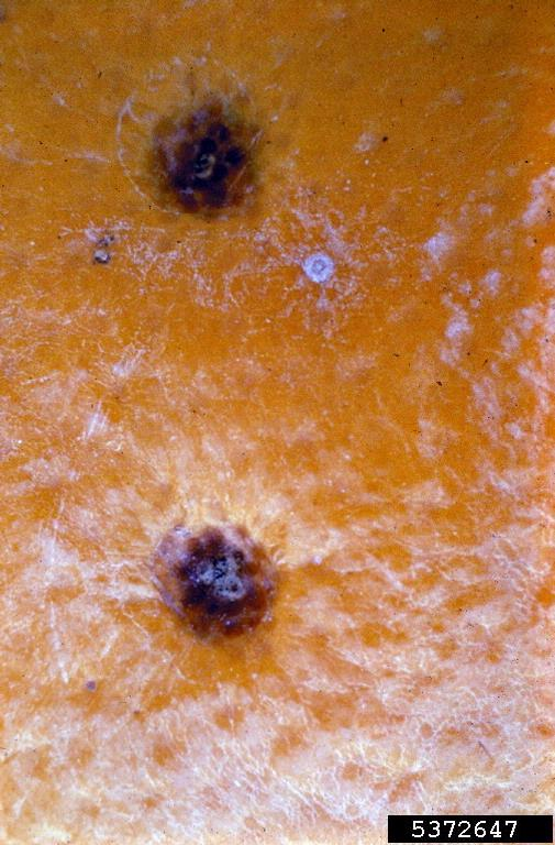 Citrus black spot lesions on an orange host.